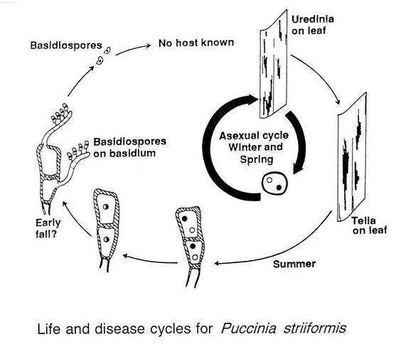 Lifecye of Puccinia striiformis